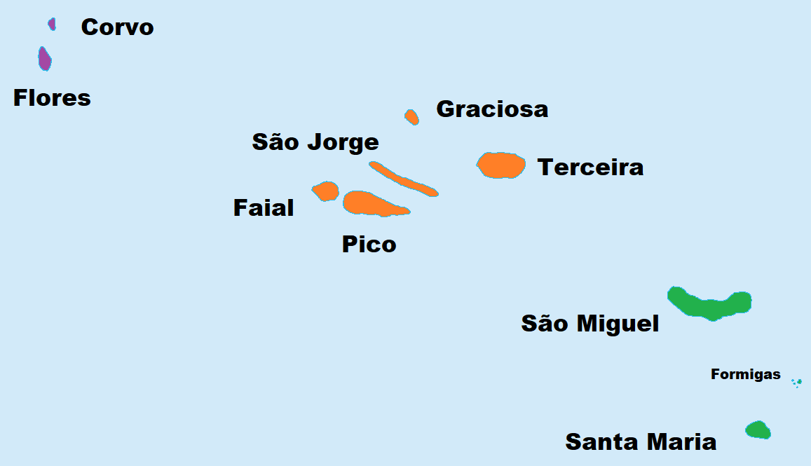 Used File:Azores-islands-locator.png as basis for map.